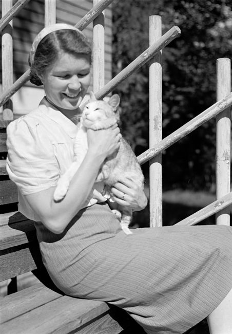 Aale Tynni and a cat. The poet had received a gold medal in poetry at the Olympic games in London 1948.